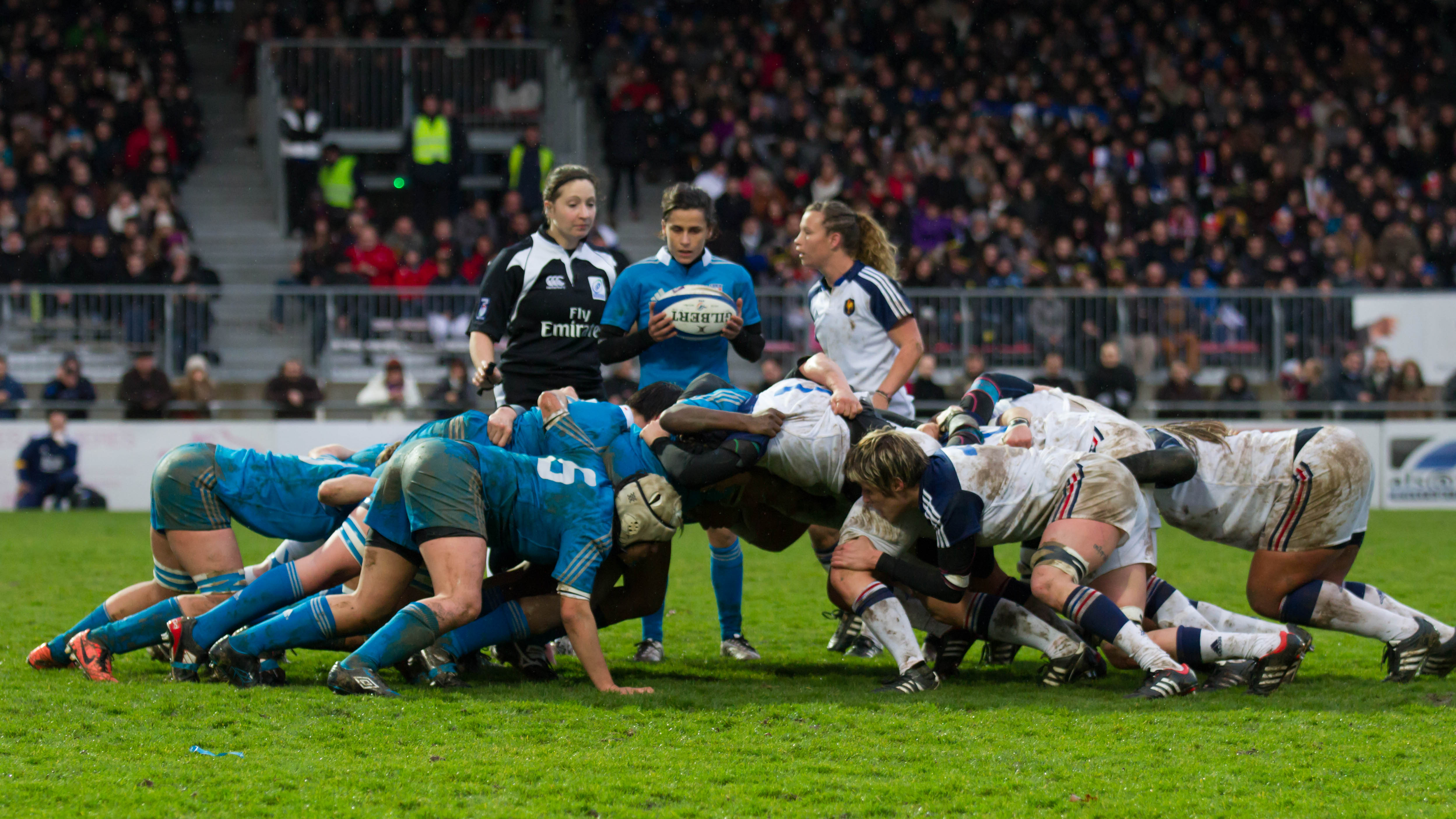 2014 Women's Six Nations Championship — 9 February 2014, Stade Ernest Argeles. Match between: France women's national rugby union team — Italy women's national rugby union team